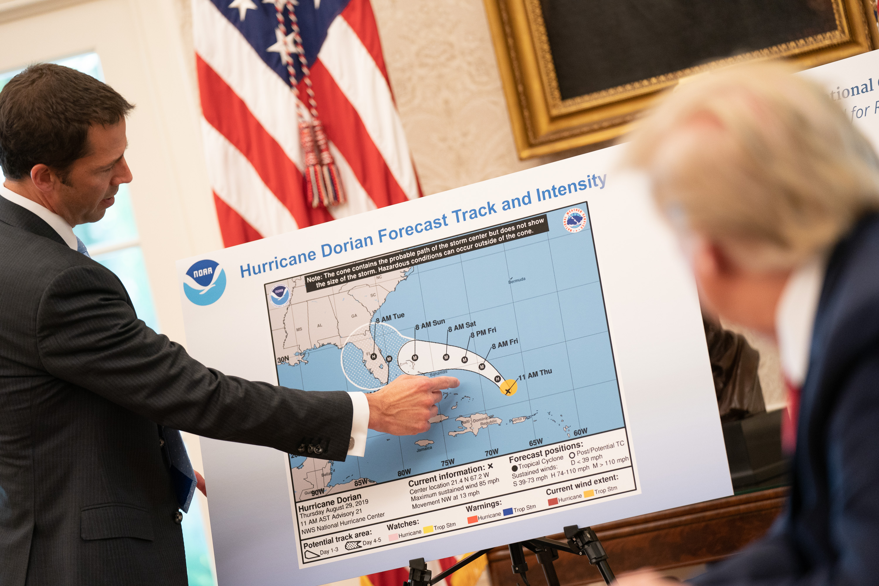 President Donald J. Trump, joined by Vice President Mike Pence, receives a briefing update on Hurricane Dorian as it approaches the U.S. mainland Thursday, Aug. 29, 2019, in the Oval Office of the White House. (Official White House Photo by Shealah Craighead)